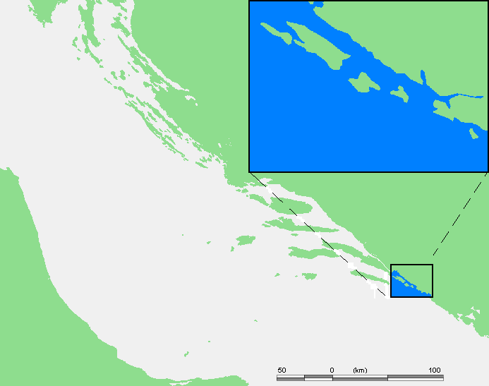 Island of Croatia - Croatia - Elafit Islands.PNG